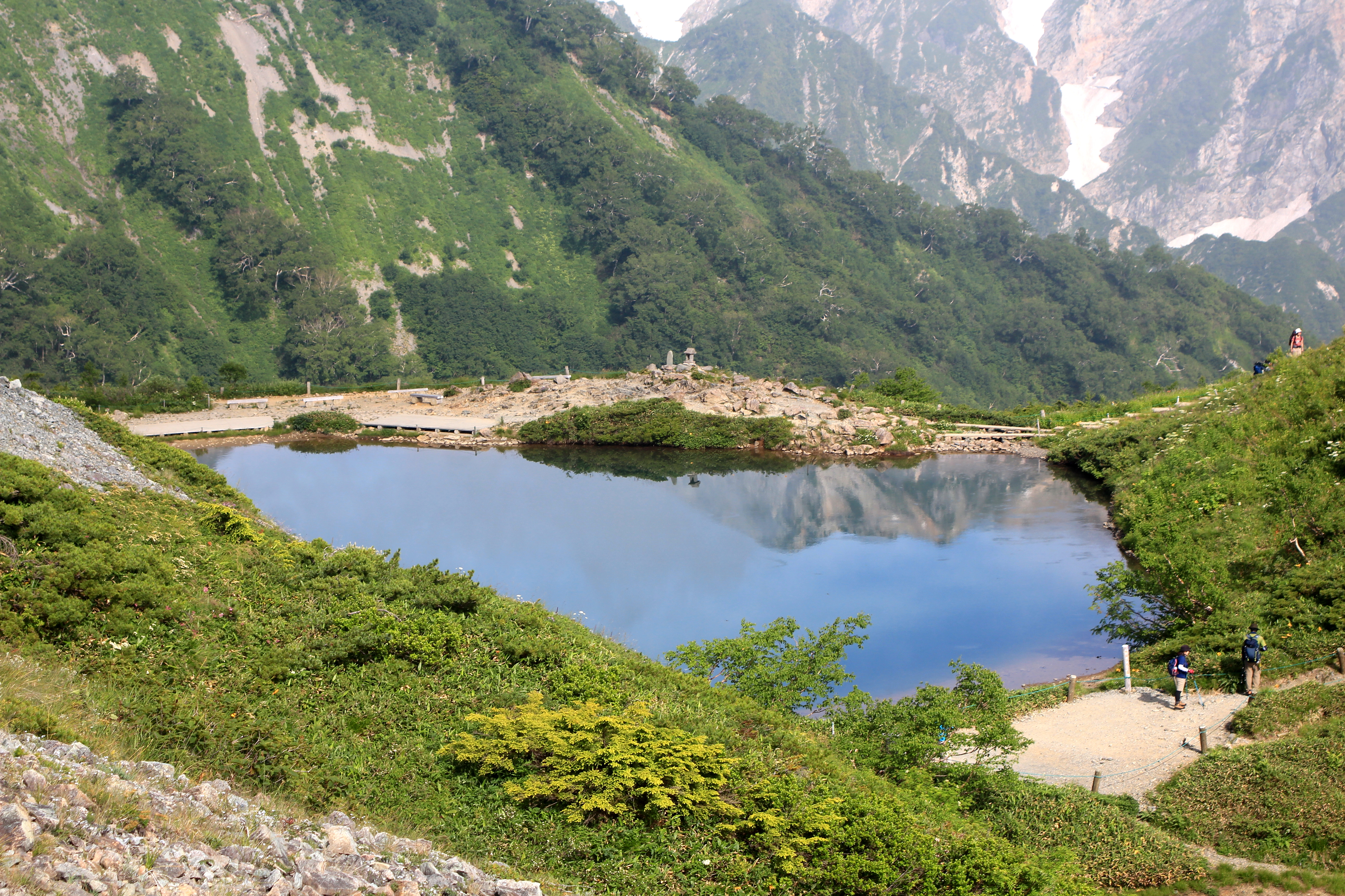 Happo Pond on Happo Ridge in Mount Karamatsu, Ushirotateyama Mountains (Hida Mountains), Hakuba, Nagano Prefecture, Japan.